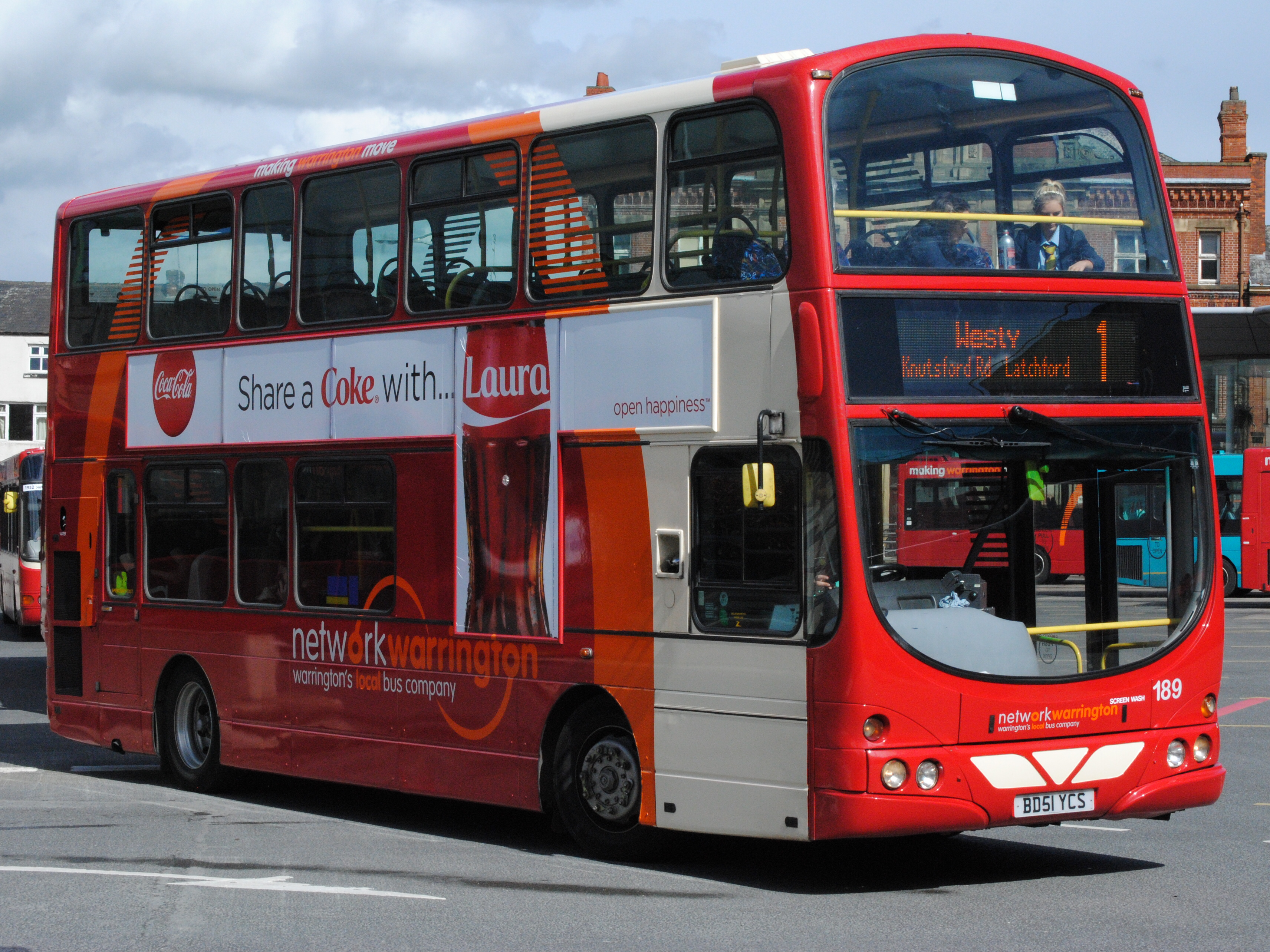 Volvo B7TL Wright Eclipse Gemini. new to London United VR227